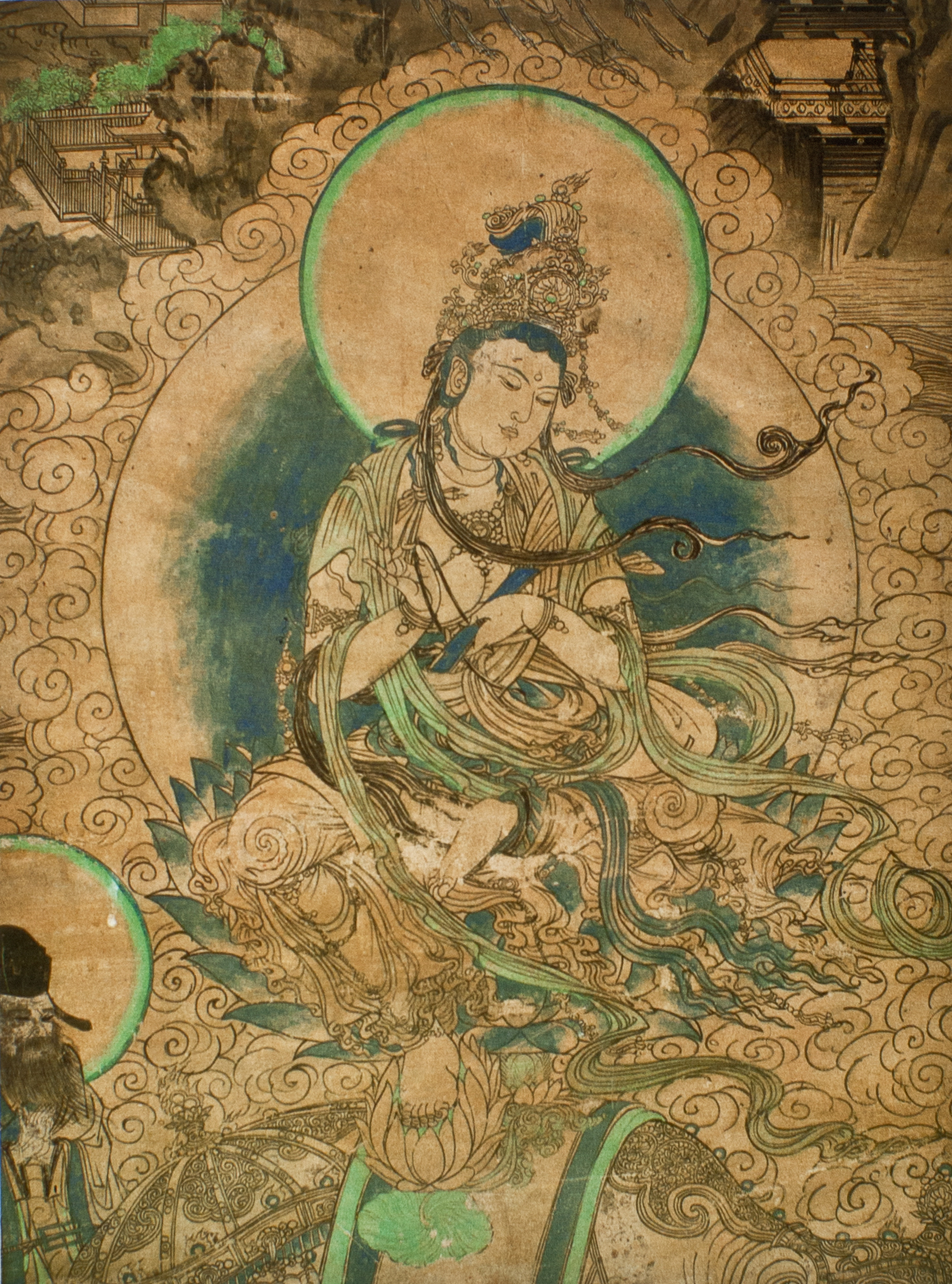 Yulin Caves, Gansu, China